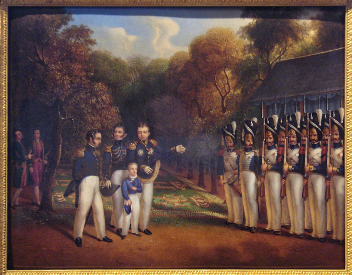 Image:Henri d'Artois inspecting royal troops.